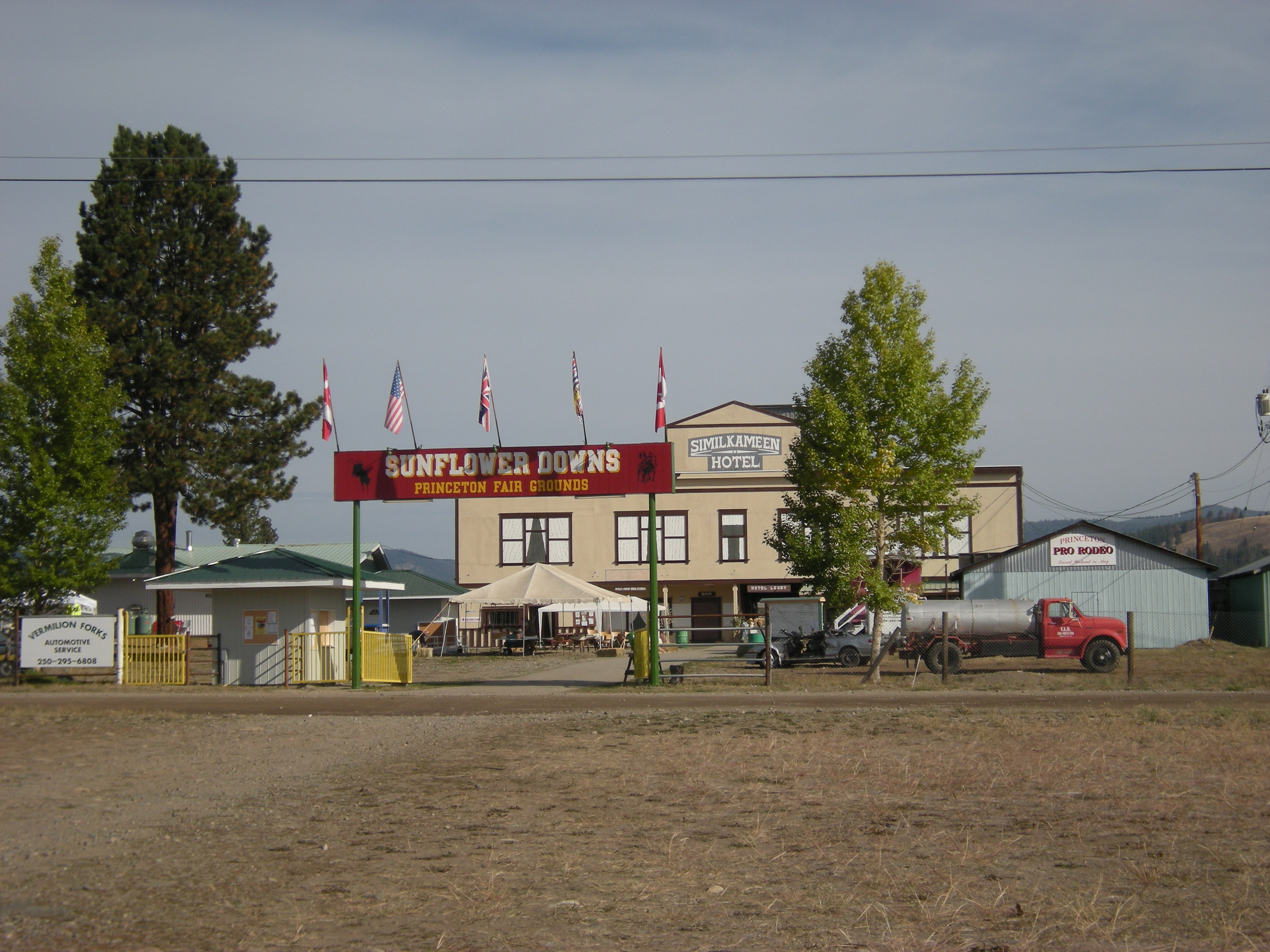 Sunflower Downs fairgrounds, Princeton, British Columbia.